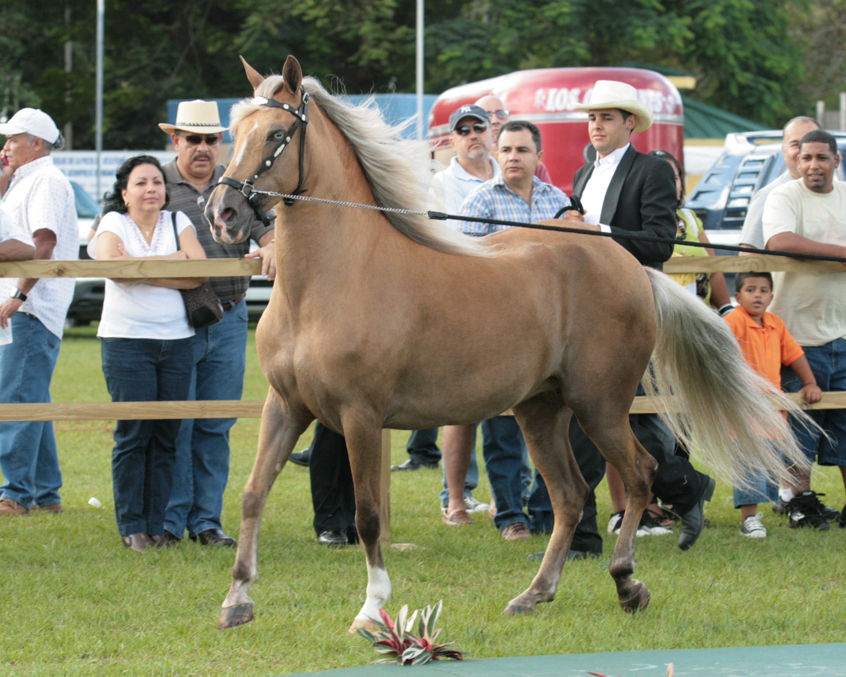 Palomino Dilute Paso Fino Mare in Bella Forma class at the 2008 Copa La Candelaria in Manati, Puerto Rico